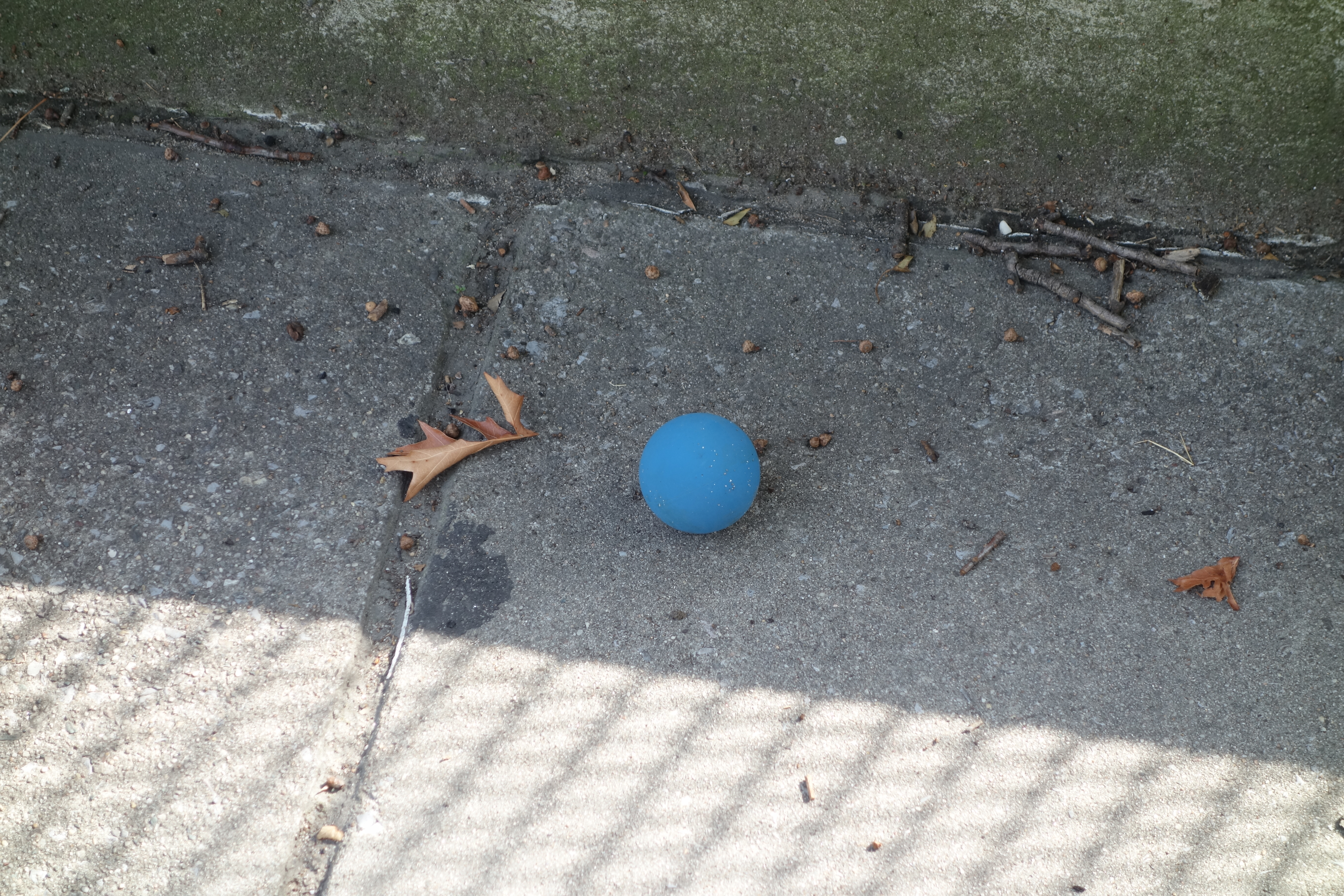 The handball courts of LaGuardia Playground South, next to the Williamsburg Bridge approaches at Havemeyer Street and South 5th Street in Williamsburg, Brooklyn. They seem to be in good condition, in stark contrast to the adjacent basketball courts.